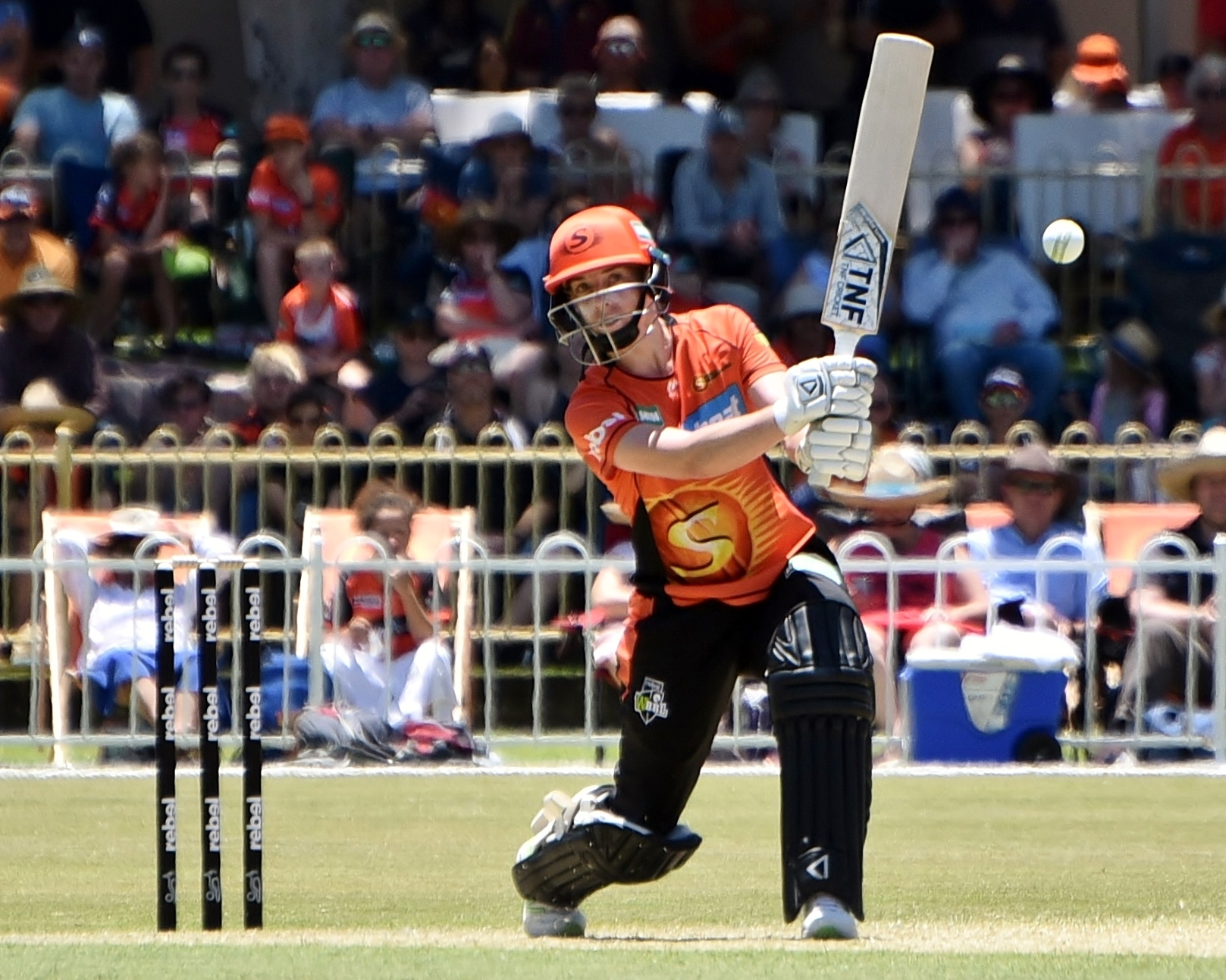 Perth Scorchers batter Elyse Villani batting against the Sydney Thunder, in a WBBL match at Lilac Hill Park in Perth